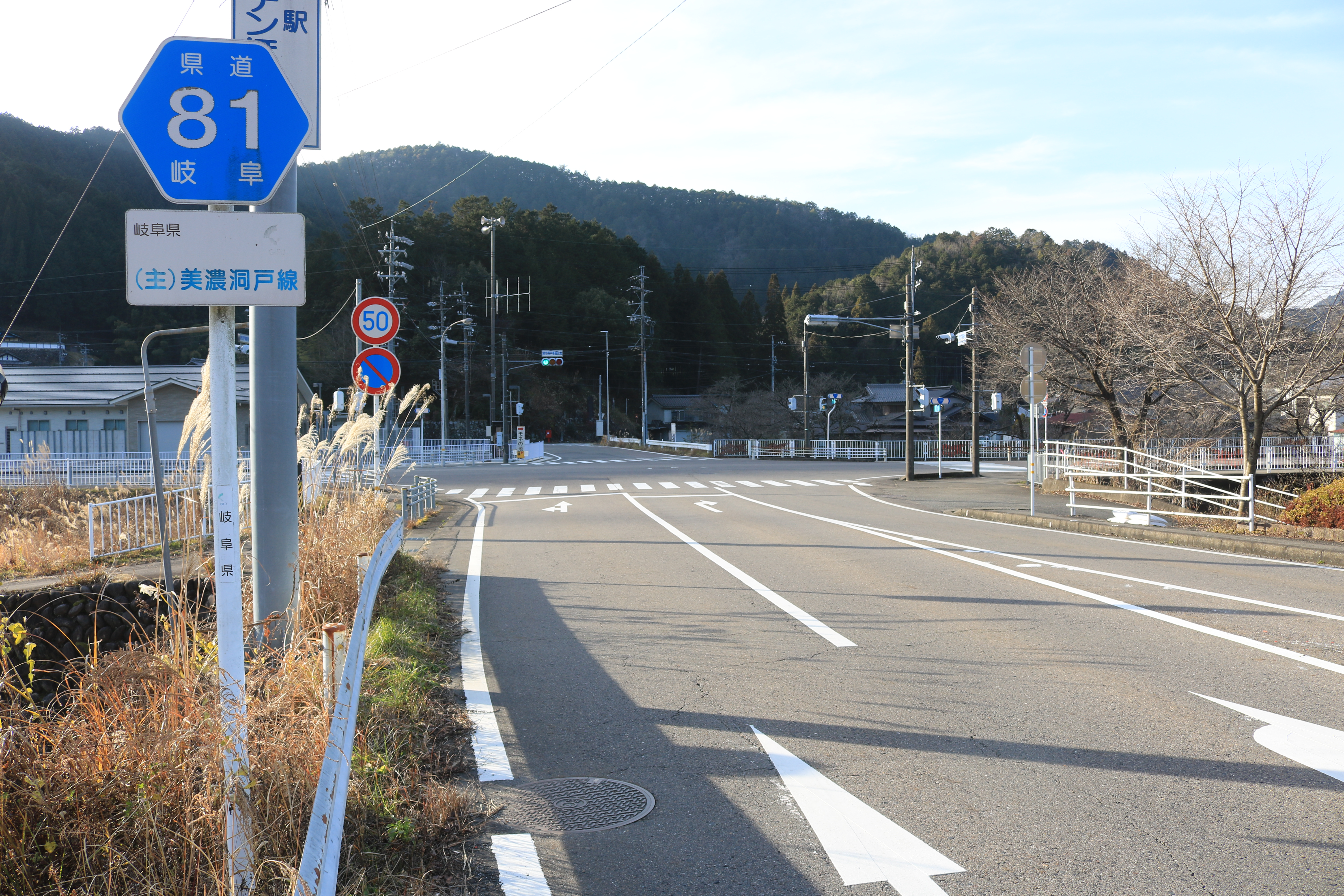 Gifu Prefectural Road Route 81 in Horadoichiba, Seki, Gifu Prefecture, Japan.